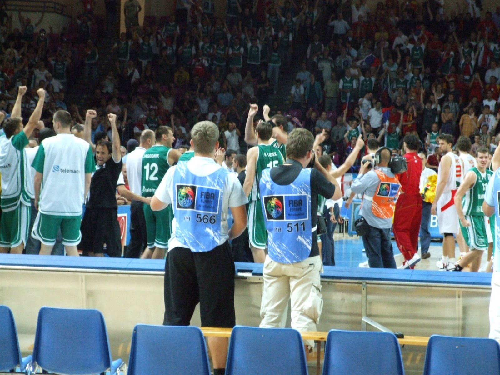 Slovenia vs. Spain at EuroBasket 2009.